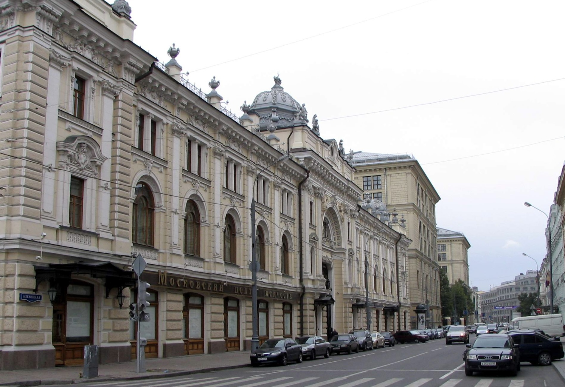 Moscow. Neglinnaya street, 14. Sanduny